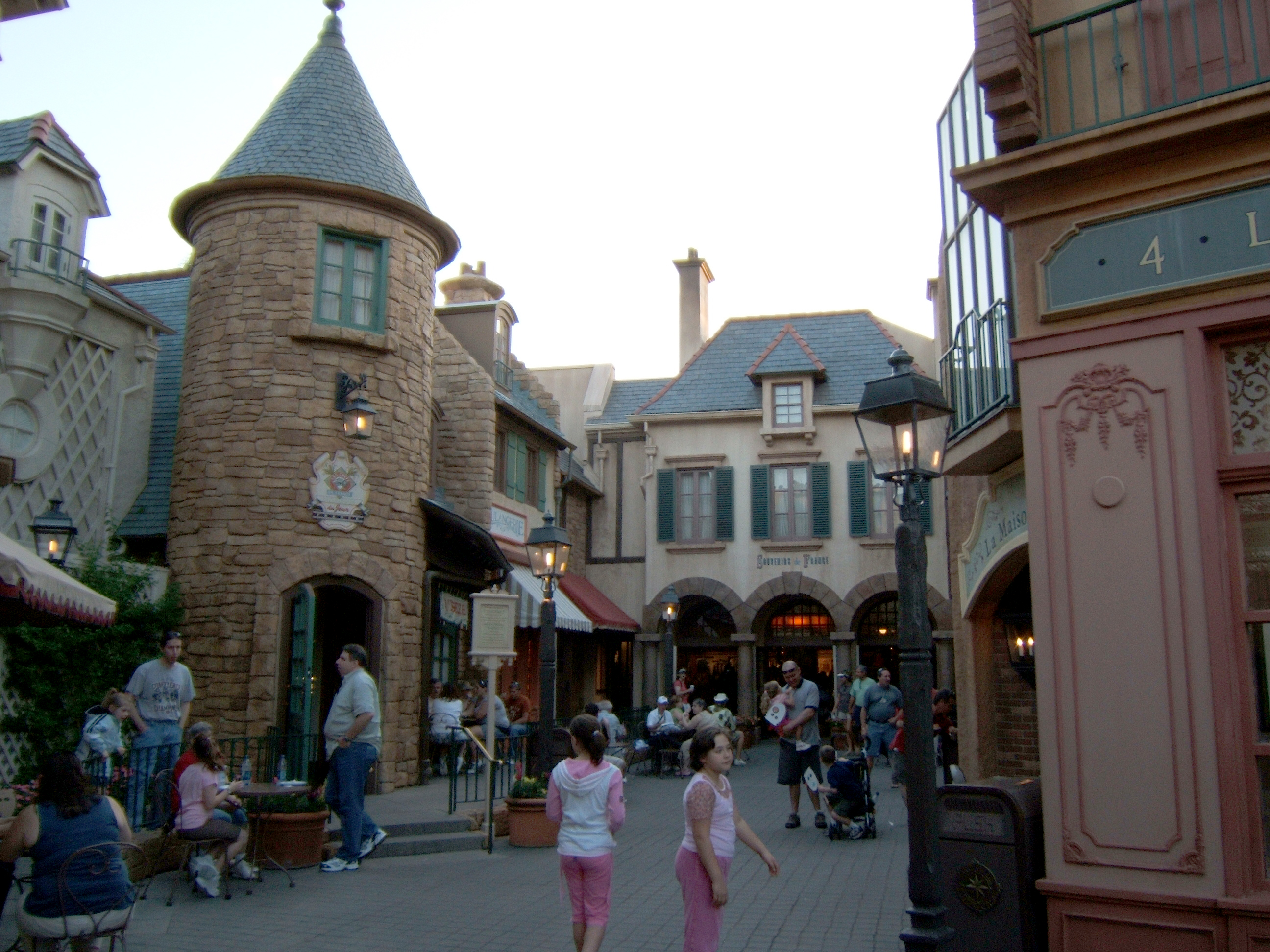 World-Showcase, Disney World, pavillon français.